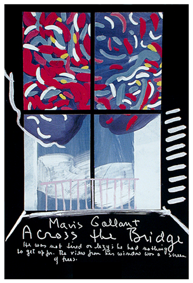 "Across the Bridge" by Mavis Gallant (Book cover). Publisher: S. Fischer Verlag